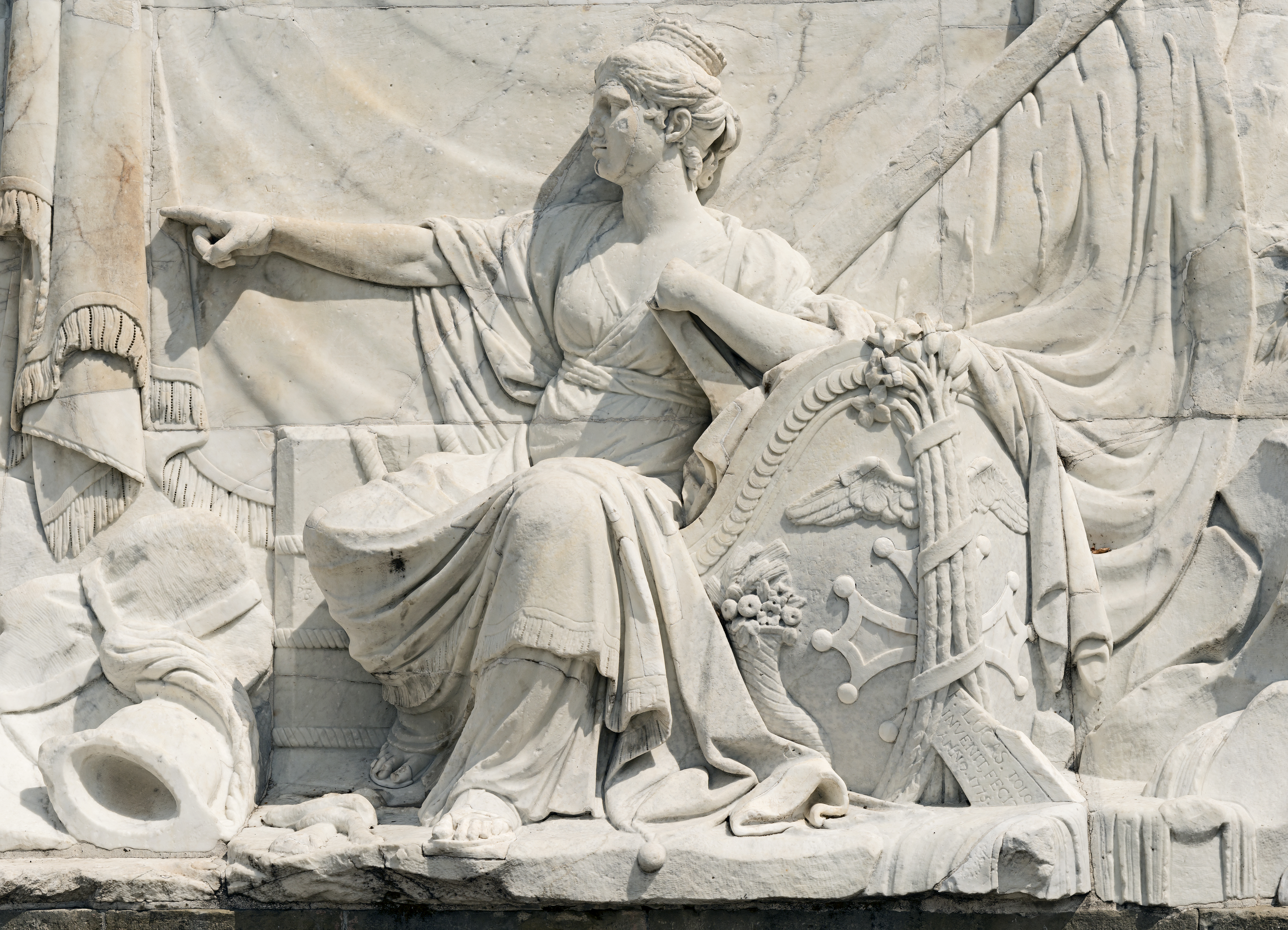 The relief of Twin Bridges Carrara marble is located in Twin Bridges, in Toulouse (south side). It was produced between 1773 and 17751 by sculptor François Lucas. Allegory of Occitania.